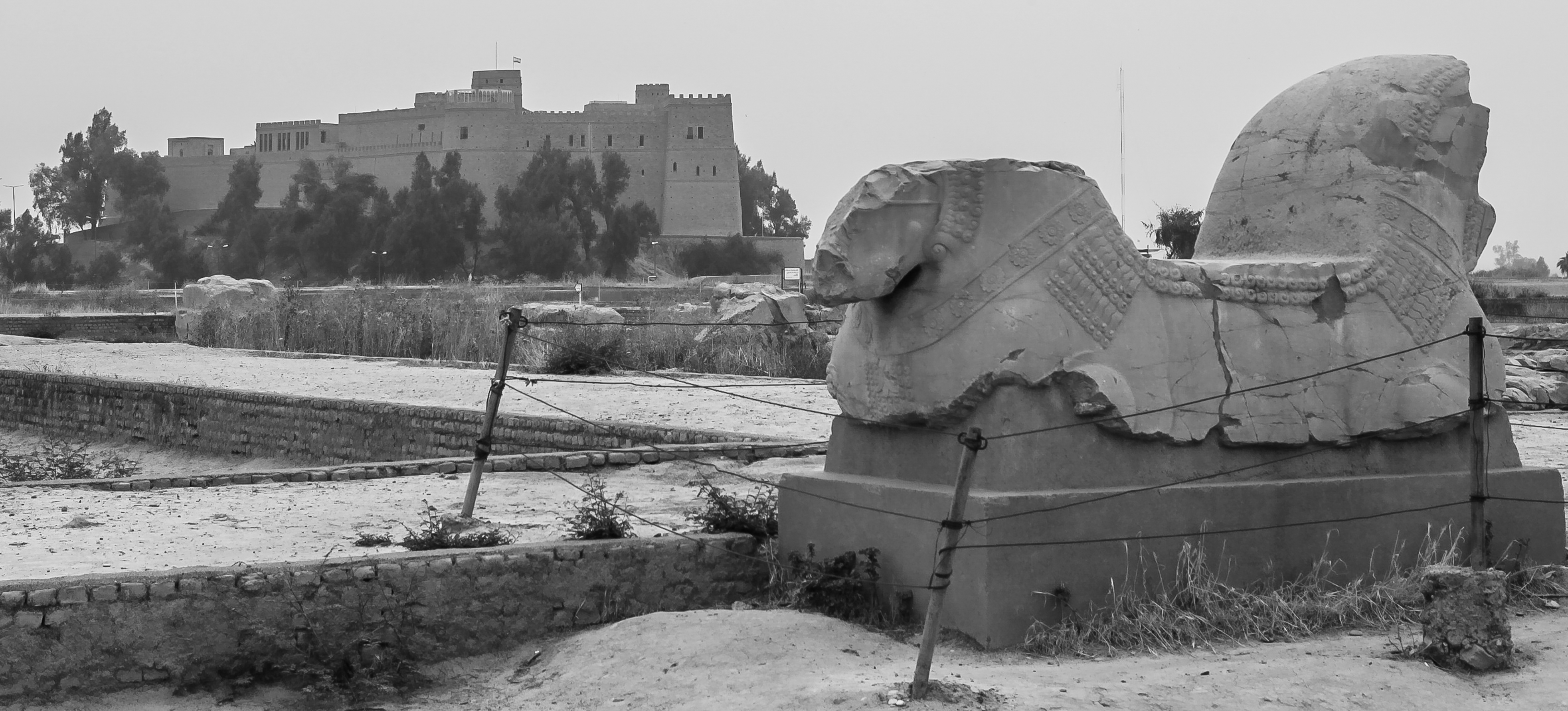 Shush Castle is constructed by French archaeologist Jean-Marie Jacques de Morgan in the late 1890s.